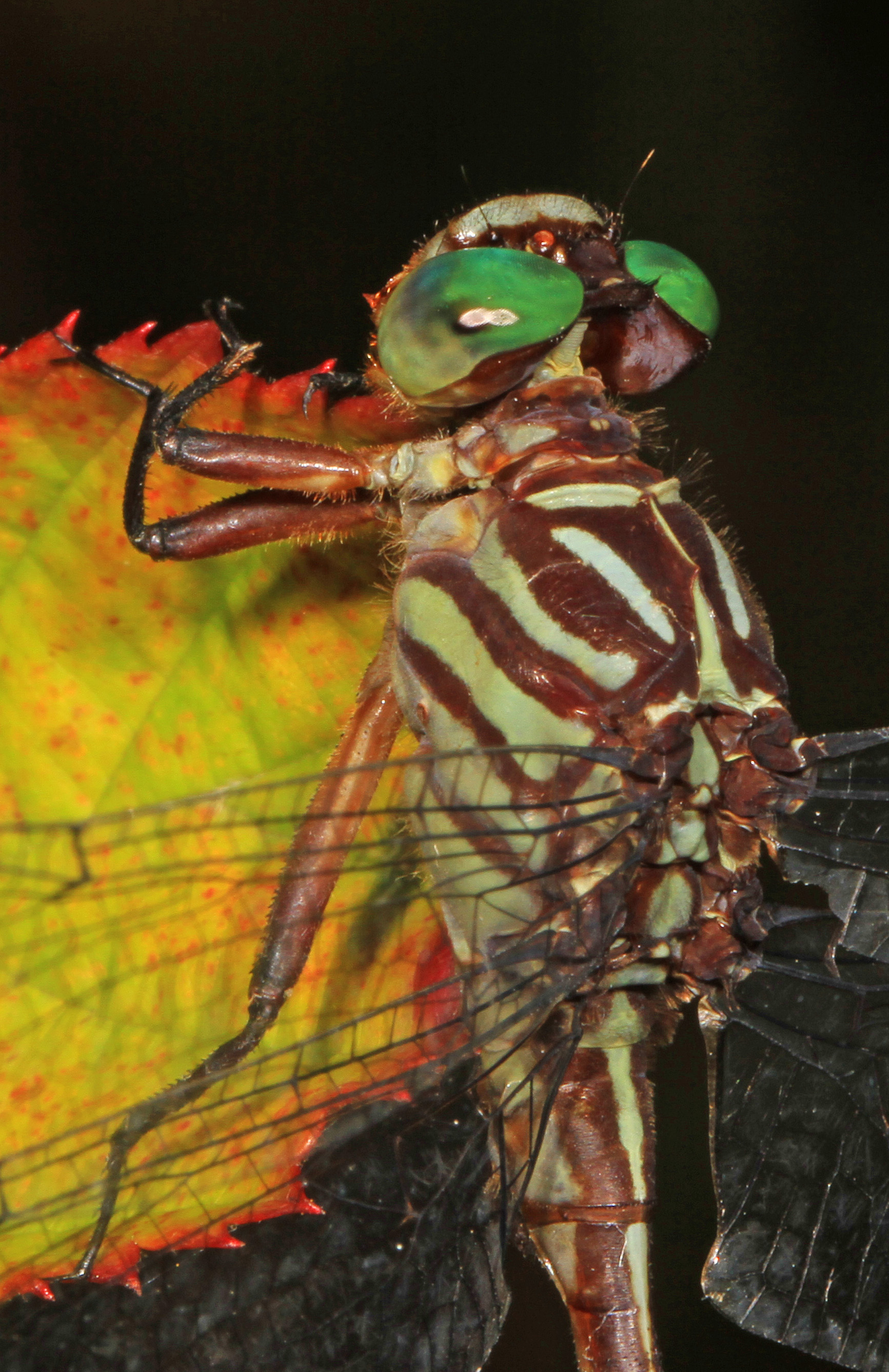 Russet-tipped Clubtail - Stylurus plagiatus, Leesylvania State Park, Woodbridge, Virginia